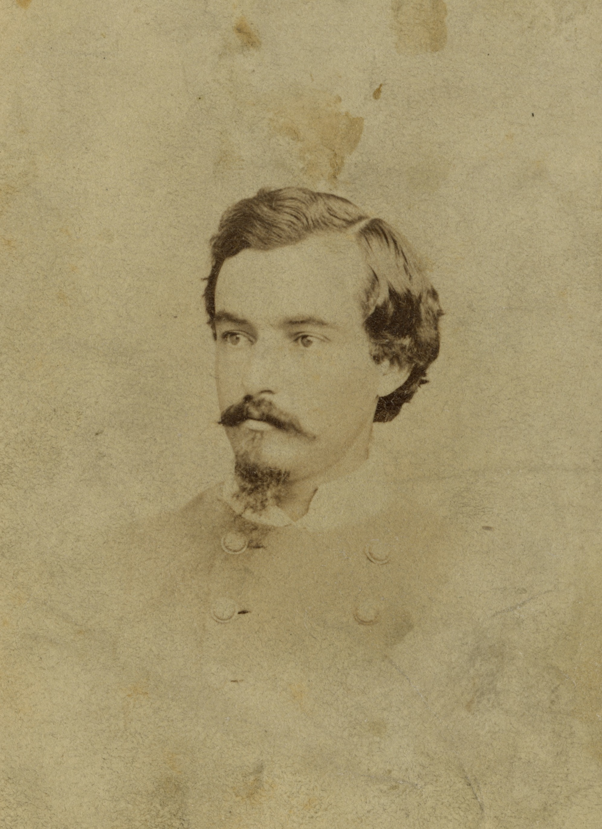 Bust portrait of a man with a beard and mustache in uniform.Title: Anton Pierre Saugrain, Adjutant, 27th Arkansas Infantry (Confederate).